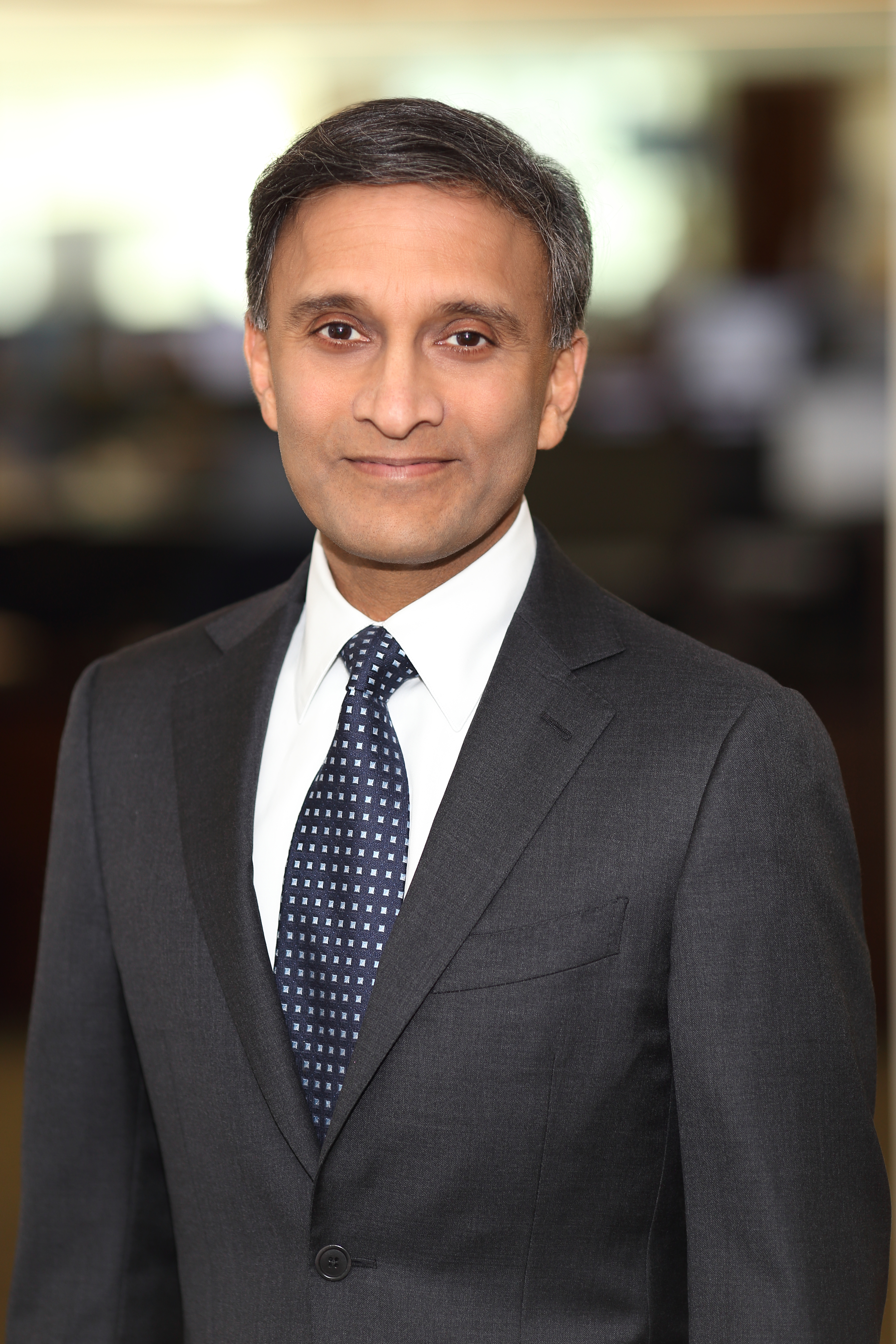 Philip Vasan American chief executive in 2016.